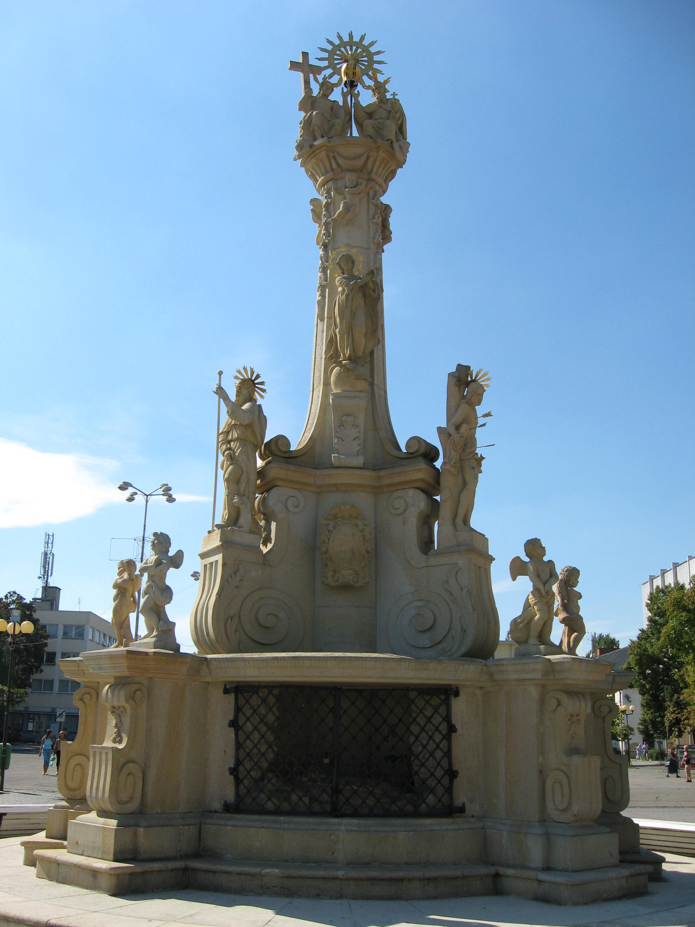 Holy Trinity Statue in Nové Zámky